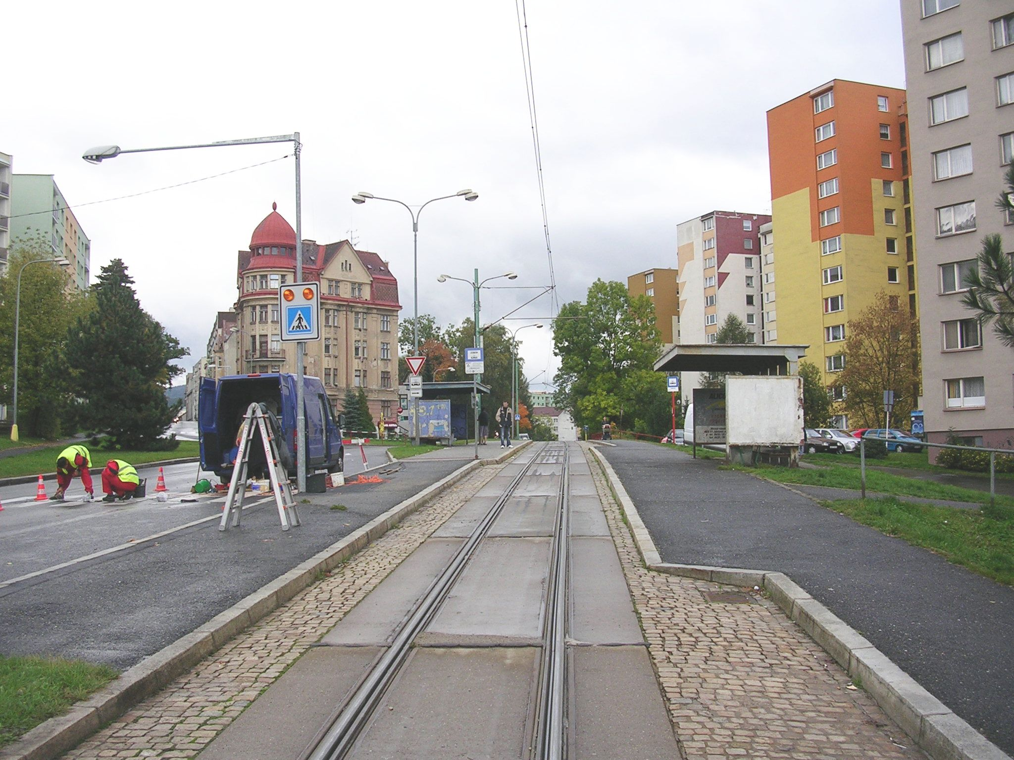 Tramway line between Liberec and Jablonec, Czech Republic. Tram stop "Jablonec nad Nisou, Liberecká".